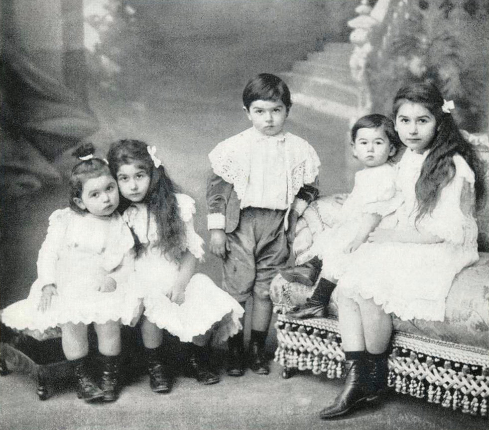 The children of Khedive Abbas Hilmi II of Egypt. The Travelers in the Middle East Archive (TIMEA) says the photograph shows "two young boys and three young girls posing for a formal picture." It is possible to identify the two boys: Crown prince Mohamed Abdel Moneim (1899–1979) (middle) Prince Mohamed Abdel Qader (1902–1919), the Khedive's youngest child (second from the right) Since the Khedive had four daughters while the photograph only shows three girls, identifying each one of them is tricky. Below is a list of the Khedive's four daughters (it is unknown which one is missing in the photograph): Princess Emineh (1895–1954) Princess Attiet Allah (1896–1971) Princess Fathia (1897–1923) Princess Latifa Chewket (1900 – c. 1975)